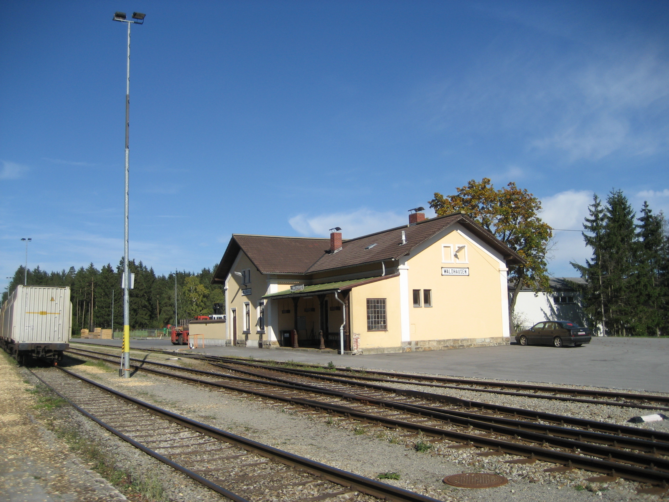 Waldhausen train station, in Lower Austria